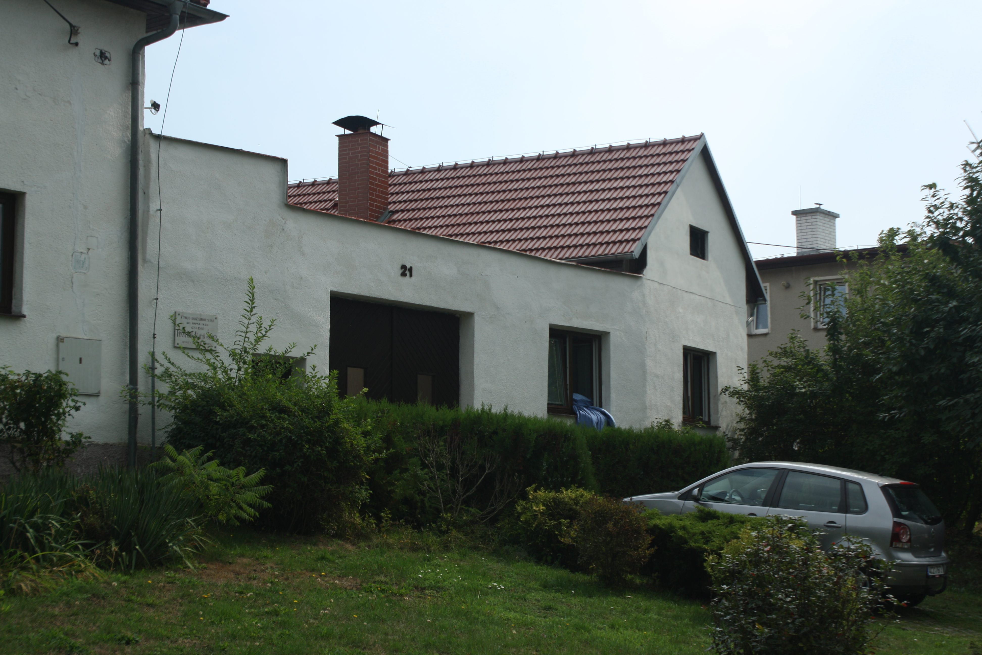 Municipality in Milenov, Nový Jičín District, Moravian-Silesian Region, Czechia